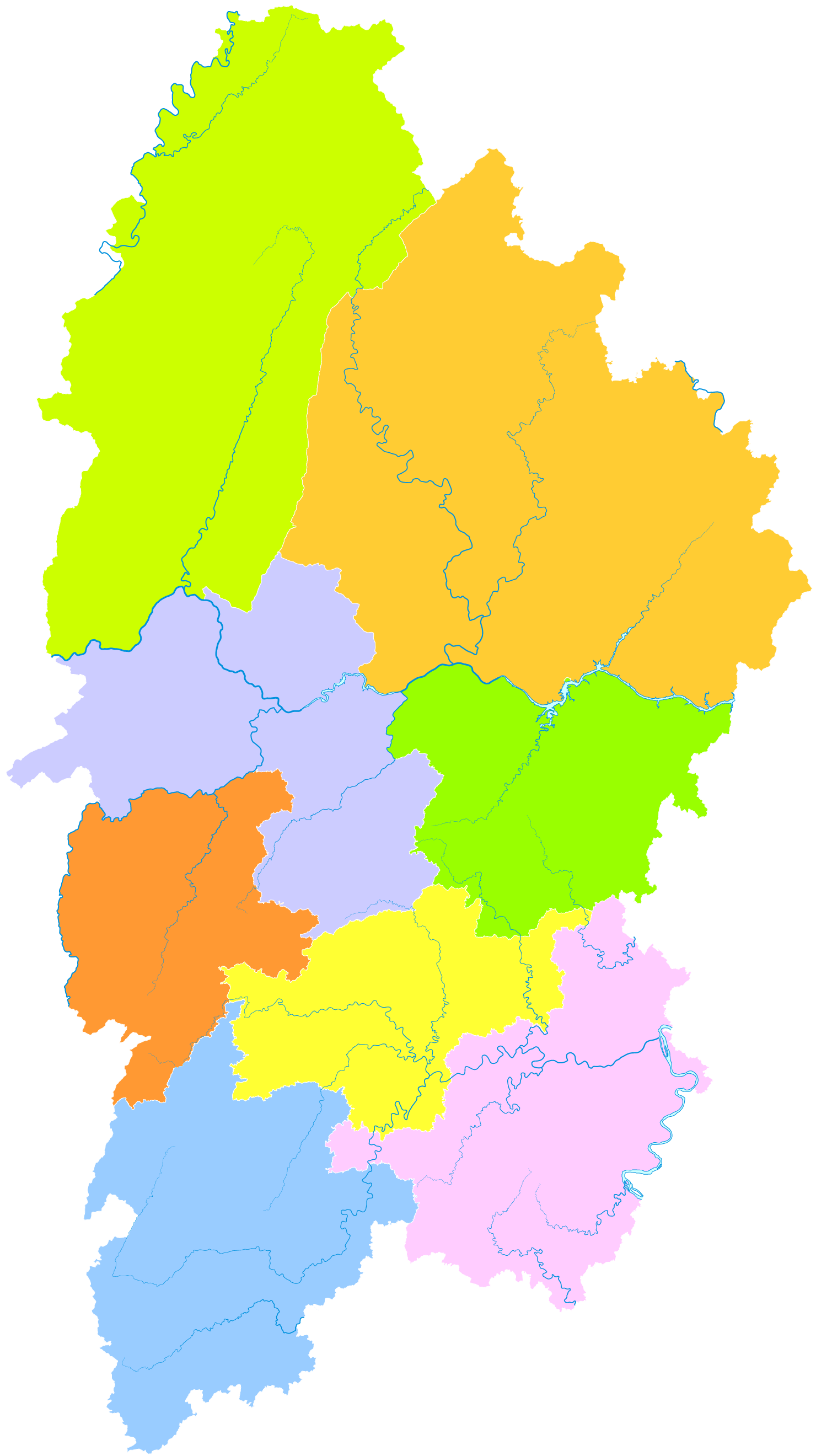 administrative divisions of Xiangxi Tujia and Miao Autonomous Prefecture, Hunan, China